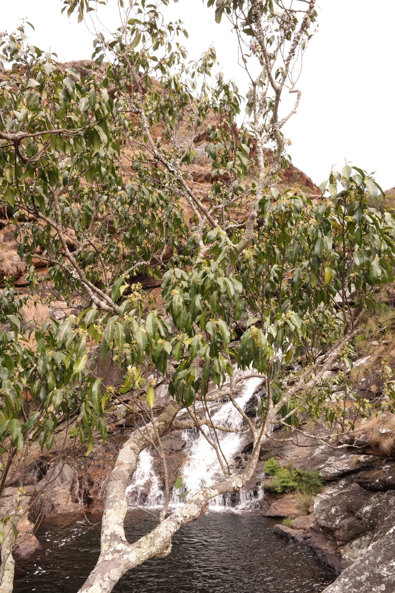 Cassipourea malosana (Rhizophoraceae), observed at Digby's Falls, Chimanimani, Zimbabwe.